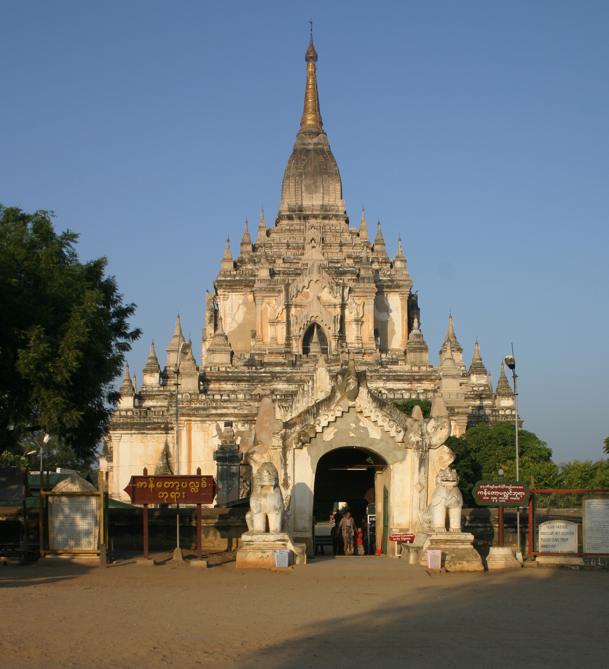 Gawdawpalin temple, Bagan, Myanmar.